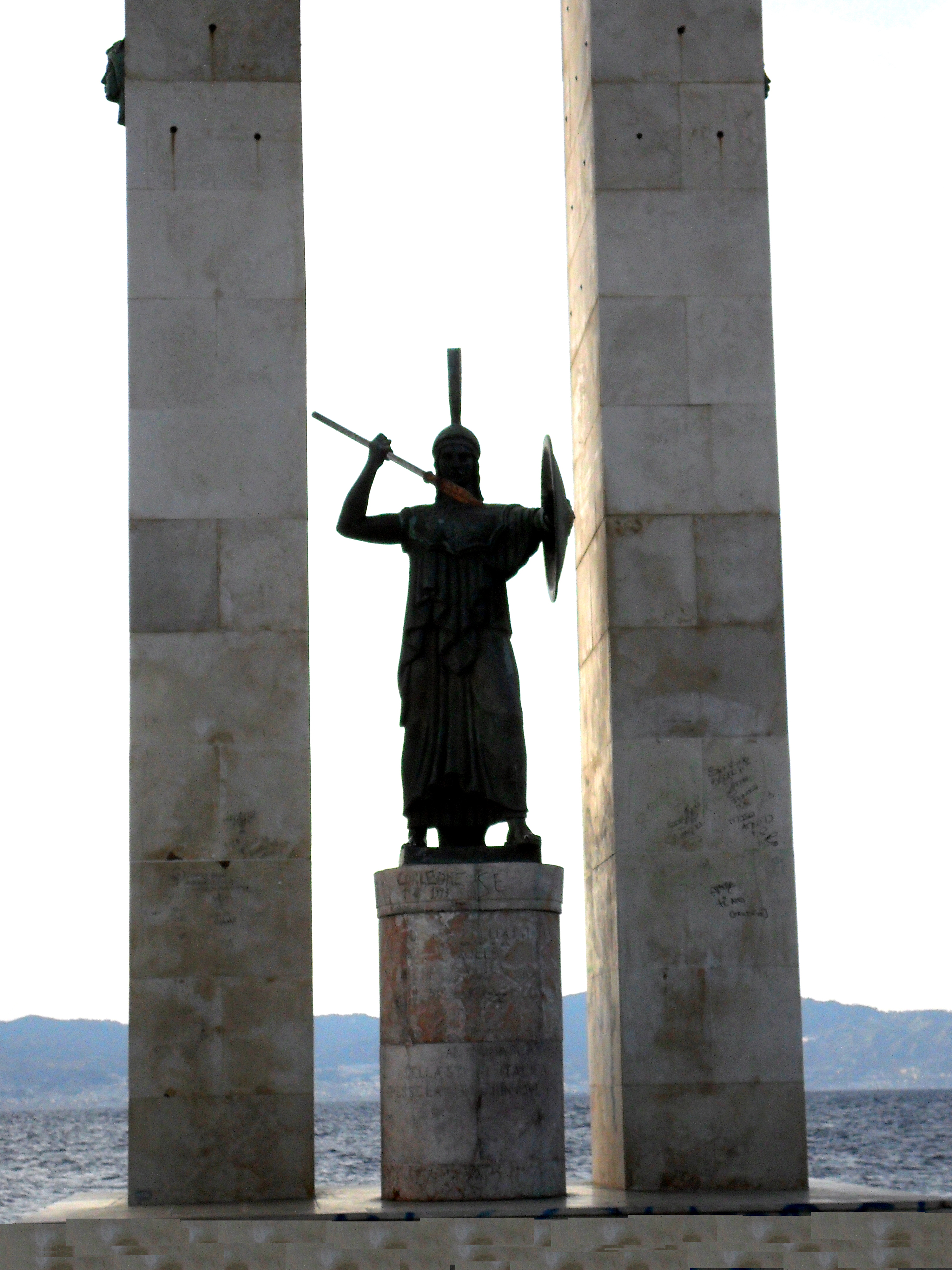 Statua Athena Promachos